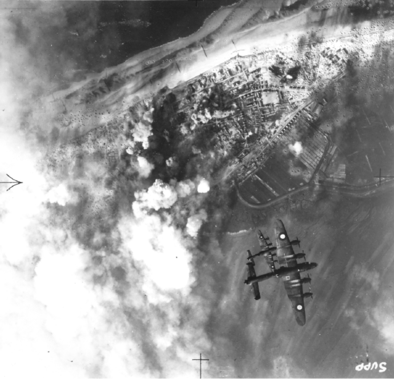 One of the last great RAF-raids together with RCAF and FAFL against germany. This raid was intended to knock out the coastal batteries on this Frisian island which controlled the approaches to the ports of Bremen and Wilhelmshaven.